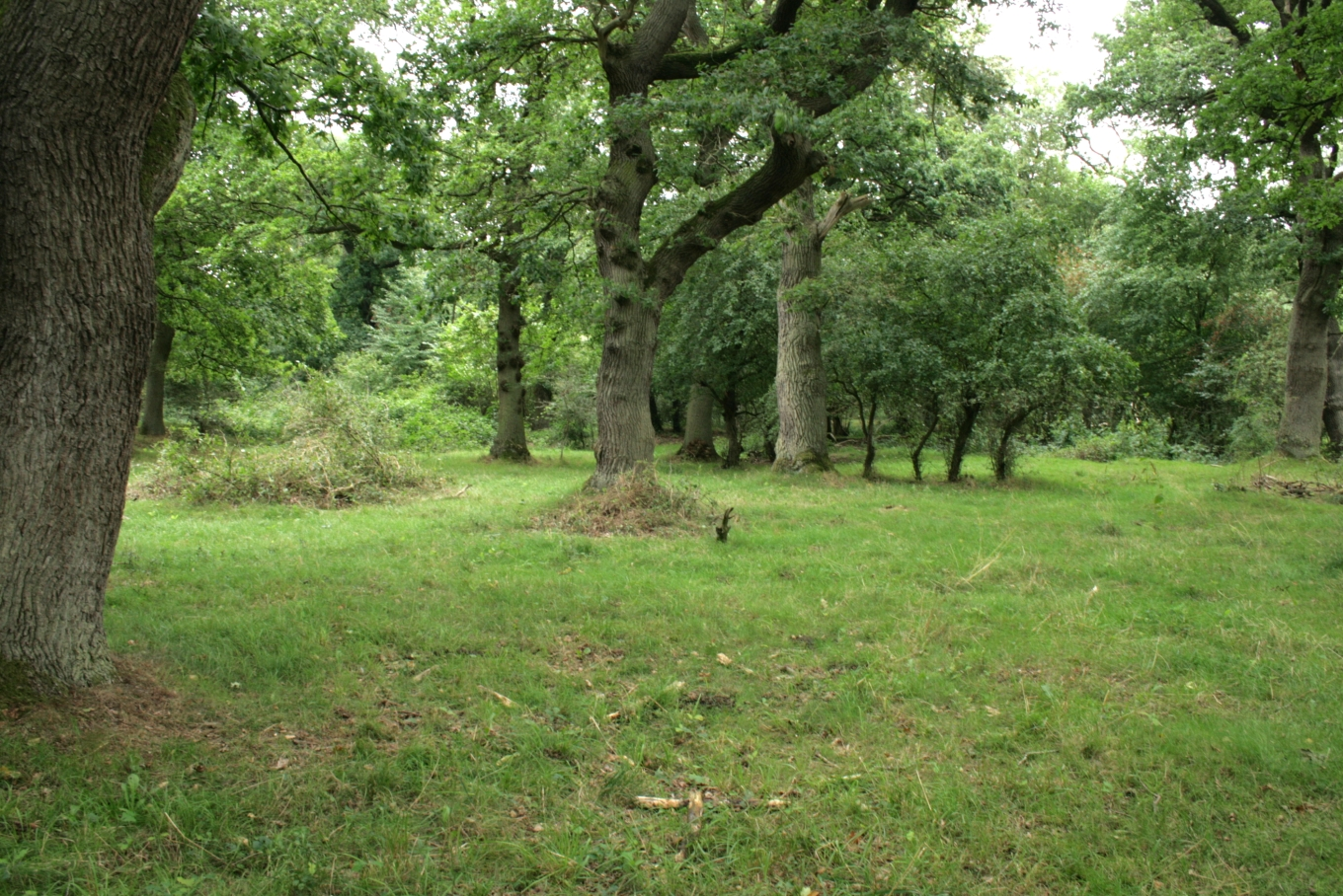 Langå Egeskov, at Langå, Jutland, Denmark: Dominant oak trees. This oak forest is the only one in Denmark with an ongoing cattle-pasture. It is owned by "Danmarks Naturfredningsfond" (a foundation under the Danish society for Nature Conservation).